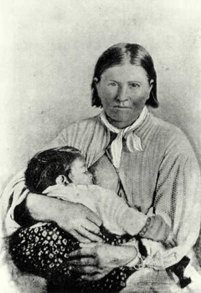 Cynthia Ann Parker, image taken in 1860 or 1861